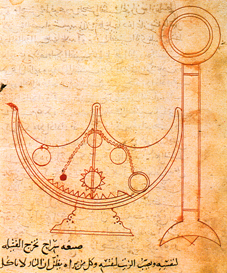 Original illustration of a self trimming lamp discussed in the treatise on Mechanical Devices of Ahmad ibn Musa ibn Shakir. Drawing can be found in the "Granger Collection" located in New York.